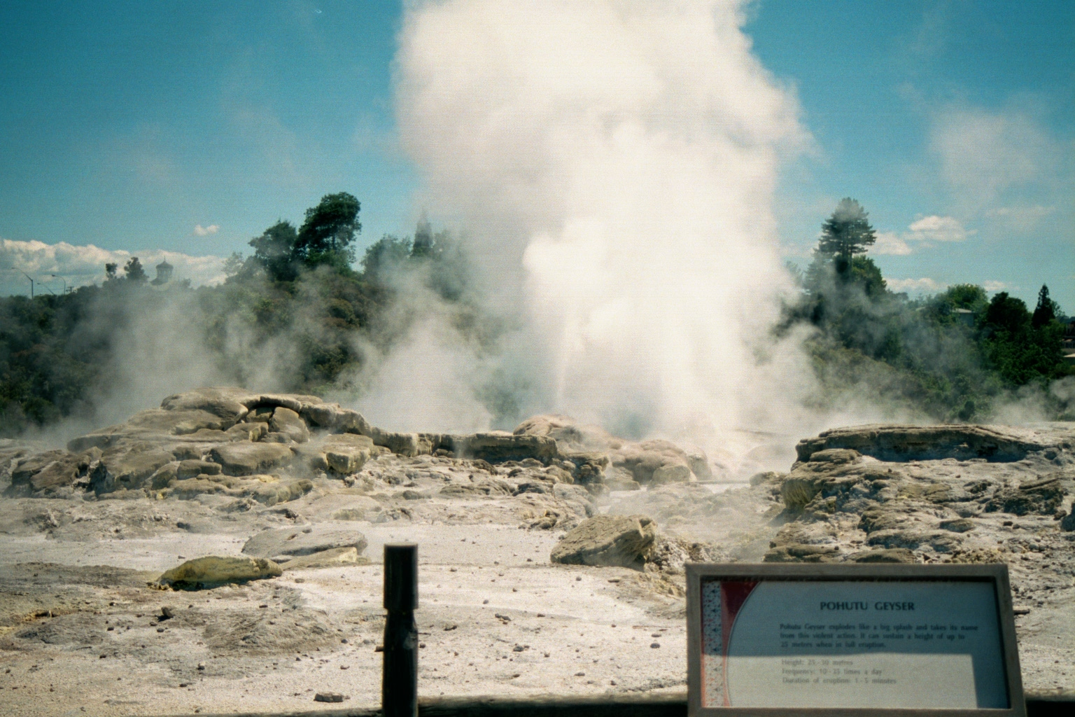 Looking out over Pohutu Geyser and Geyser Flat, Whakarewarewa, Rotorua, New Zealand